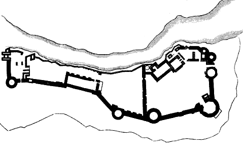 Cheptsow Castle, 1825 plan